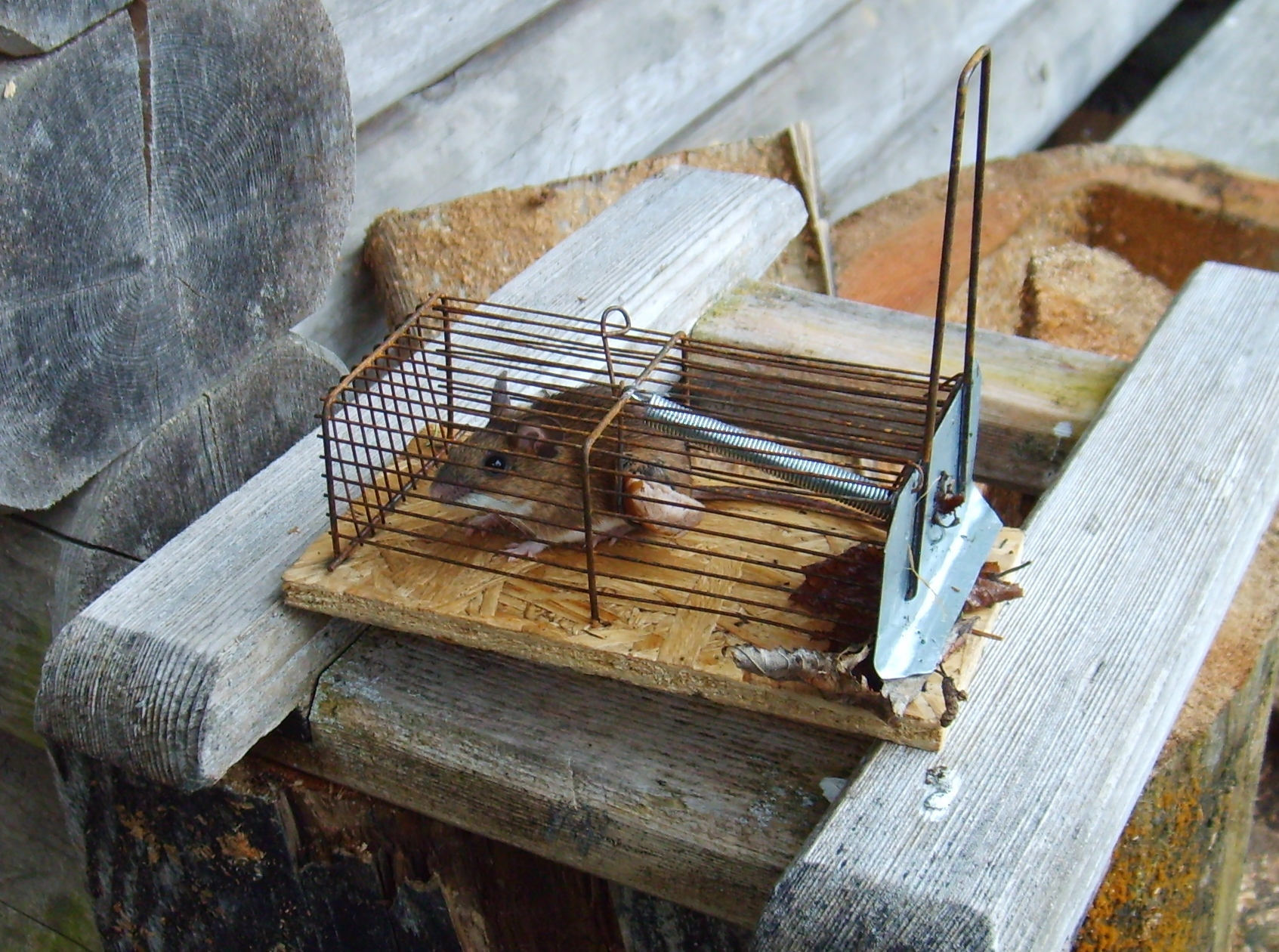 A (relatively) young Apodemus flavicollis from Interlaken, Switzerland. The mouse lived in a swampy hill in the outskirts of a forest.